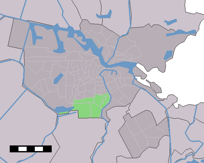 Location of neighbourhoods/districts in Amsterdam